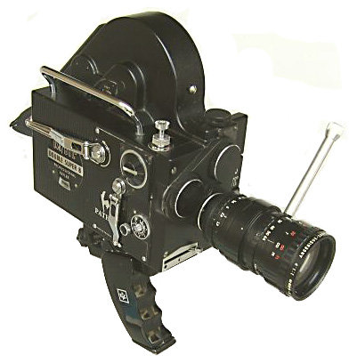 double super 8 movie camera, manufactured by Kodak-Pathé in France